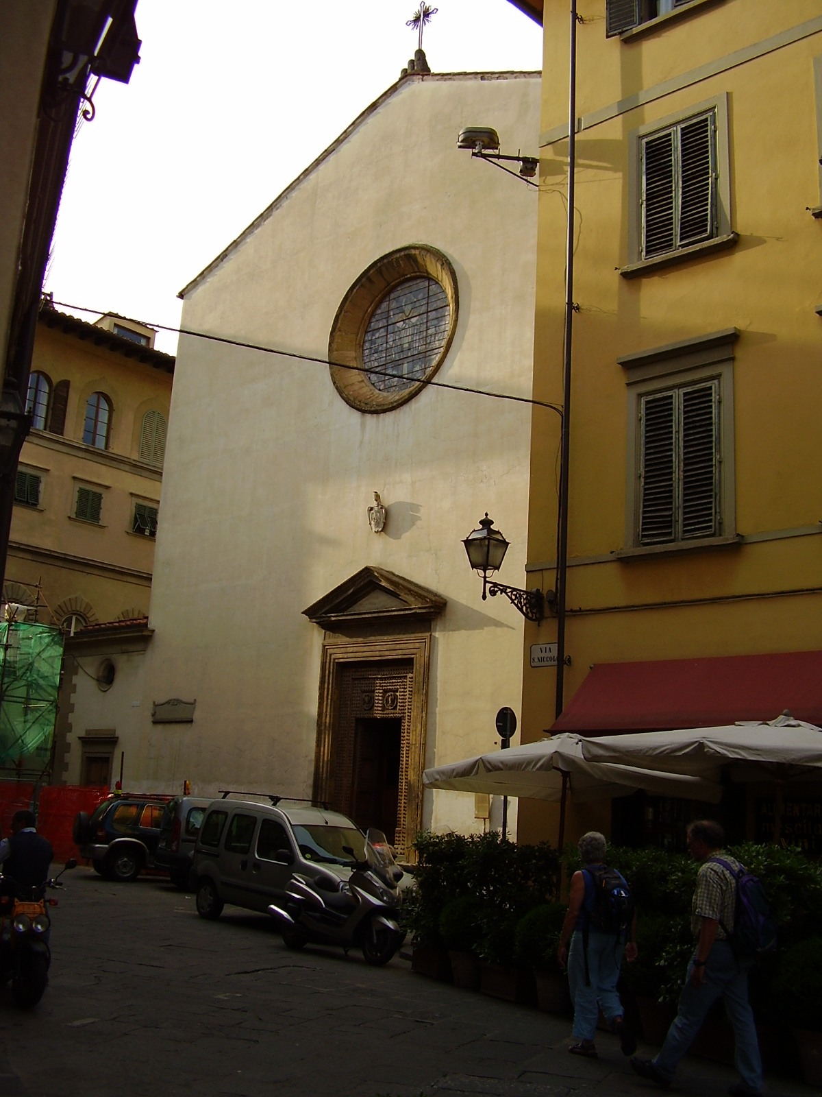 San Niccolo' Church of Florence, Italy. Firenze